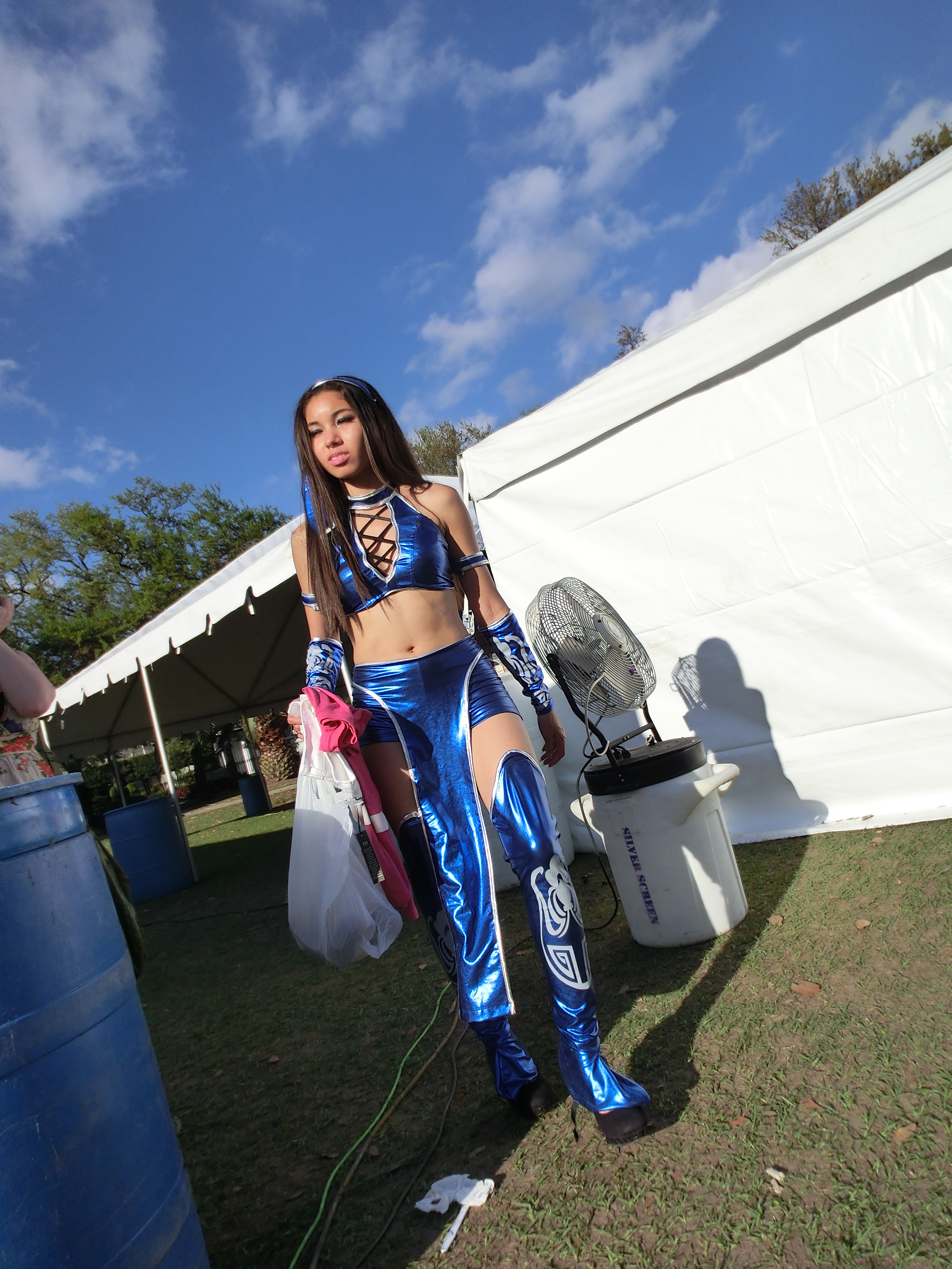 Is this Kitana from Mortal Kombat?